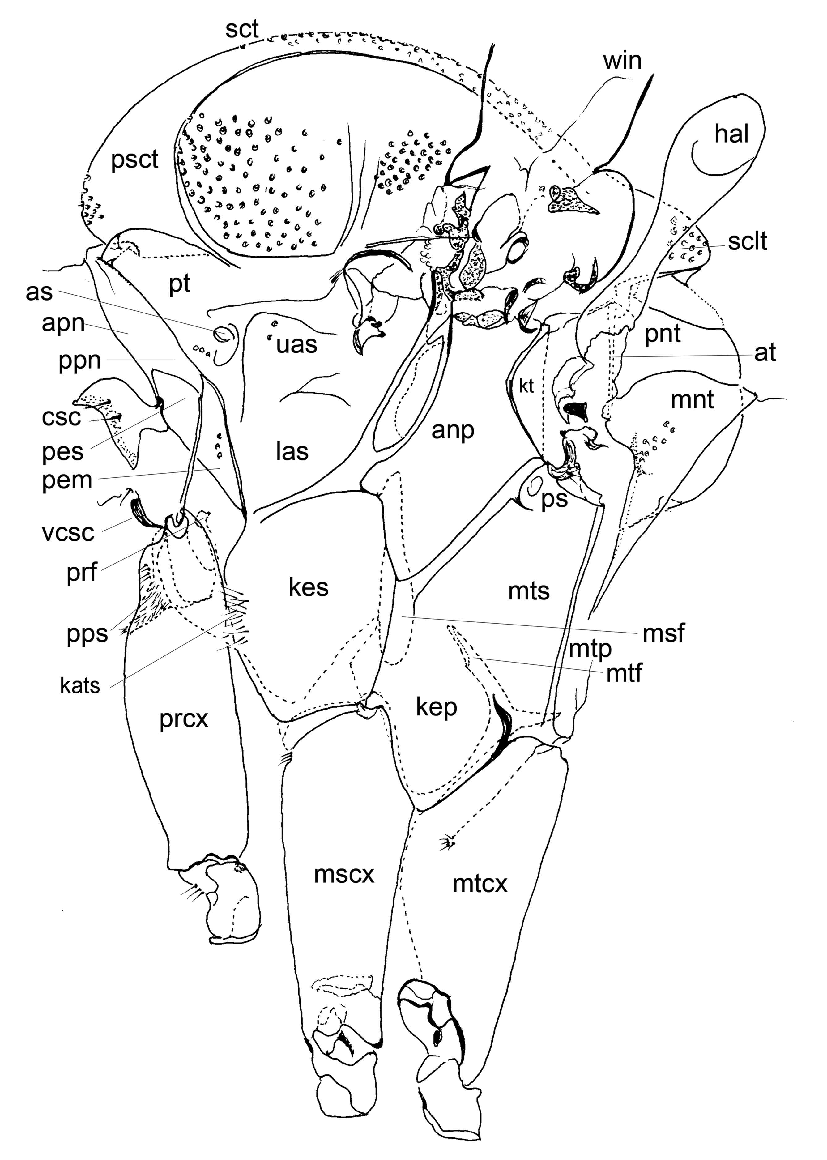 Figure 10 of paper Sclerites of cervix and thorax of Phlebotominae. anp – anepimeron; apn – antepronotum; as – anterior spiracle; at – anatergite; csc – cervical sclerite with a pair of sensilla; hal – halter; kep – katepimeron; kes – katepisternum; kt – katatergitum; las – lower anepisternum; mnt – metanotum; mscx – mesocoxa; msf – mesofurca; mtcx – metacoxa; mtf – metafurca; mtp – metepimeron; mts – metepisternum; pem – proepimeron; pes – proepisternum; pnt – postnotum; ppn – postpronotum; pps – protuberance of the prosternum; prcx – procoxa; prf – profurca; ps – posterior spiracle; psct – prescutum; pt – paratergite; sclt – scutellum; sct – scutum; uas – upper anepisternum; vcsc – ventrocervical sclerite; win – wing. Deanemyia samueli.